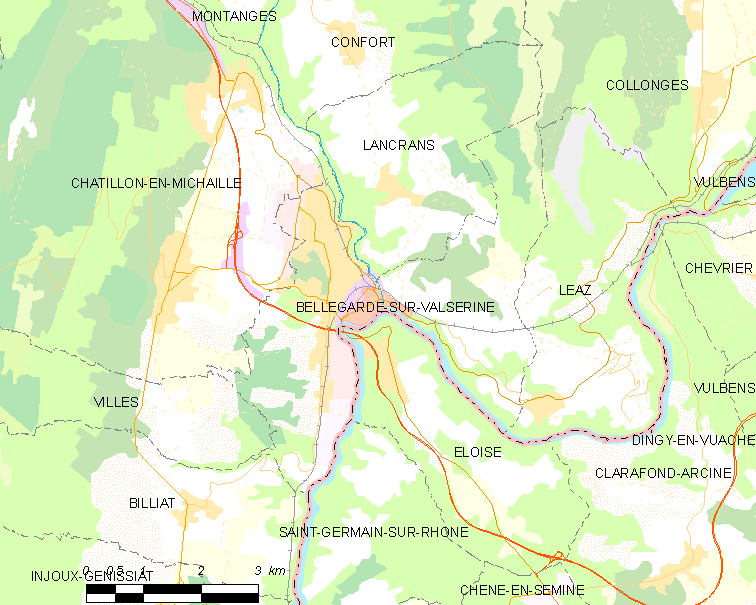 Map of French commune: Bellegarde-sur-Valserine Map commune FR insee code 01033.png